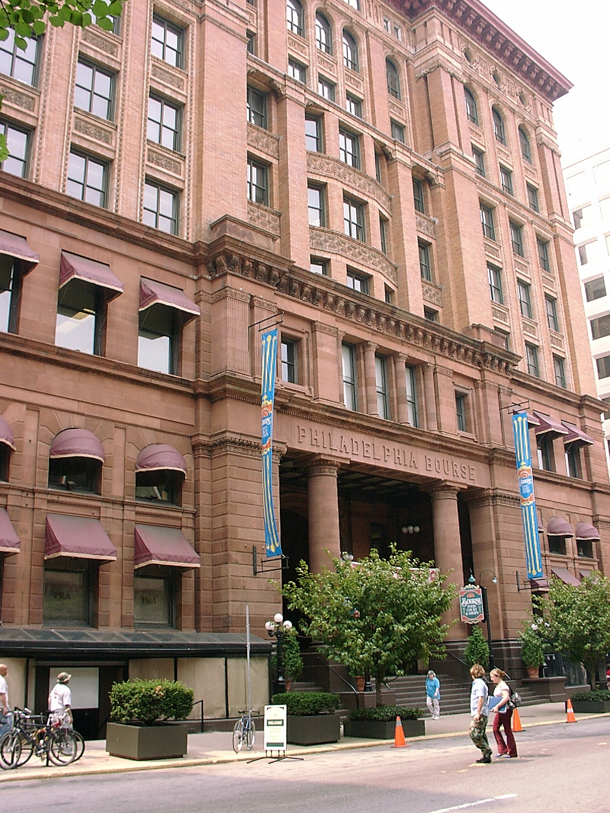 Building of the Philadelphia Stock Exchange, the oldest one in America